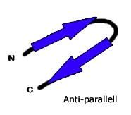 Anti-parallell Beta-pleated sheet.